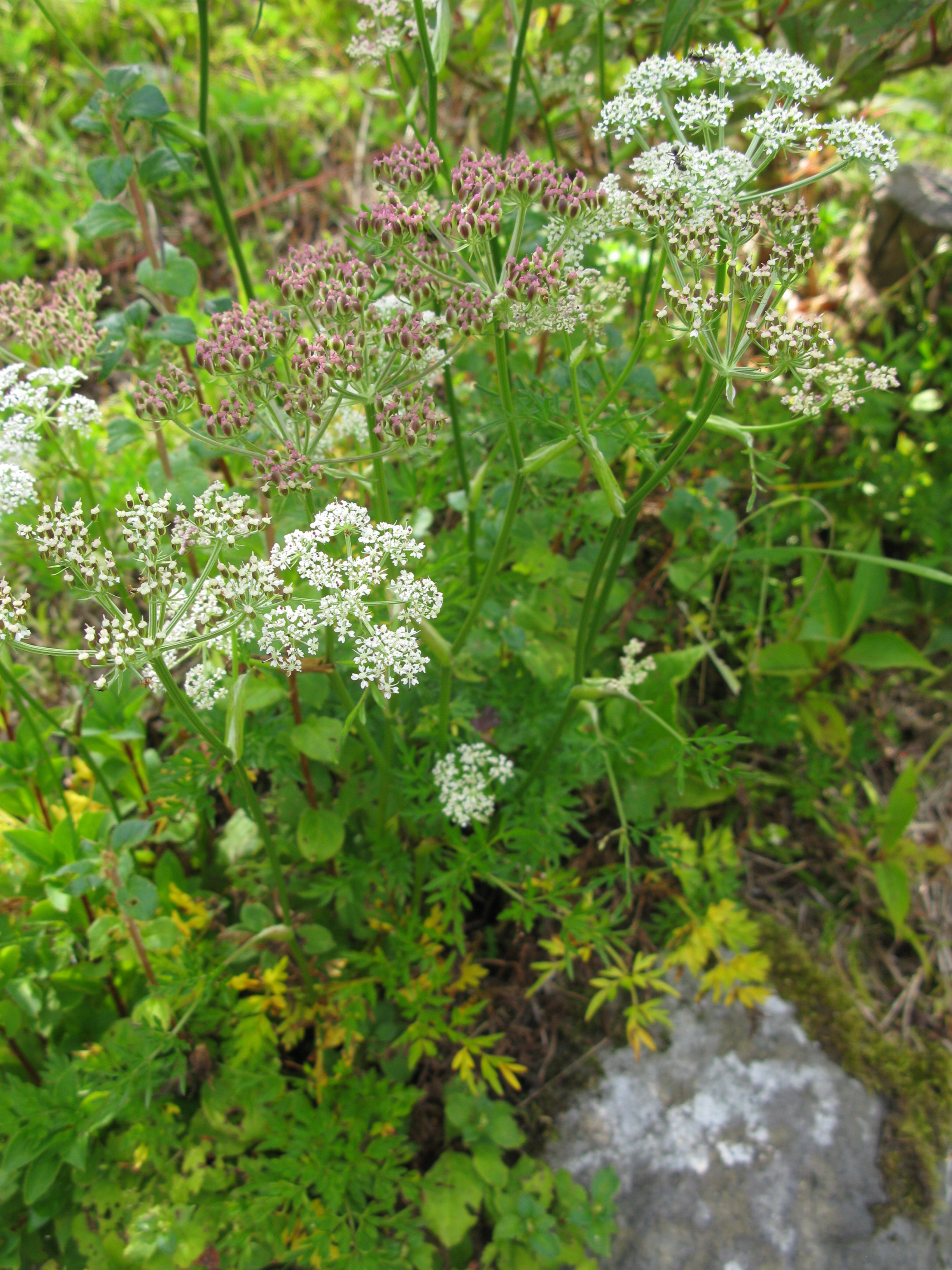 Ostericum florentii, Mount Nasu-dake, Tochigi pref., Japan